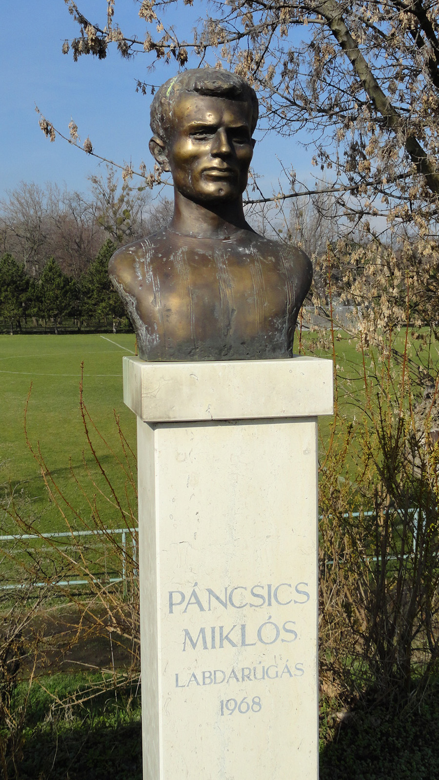 Miklós Páncsics, Hungarian association football player. 1968 Summer Olympics - Gold Medal Winner